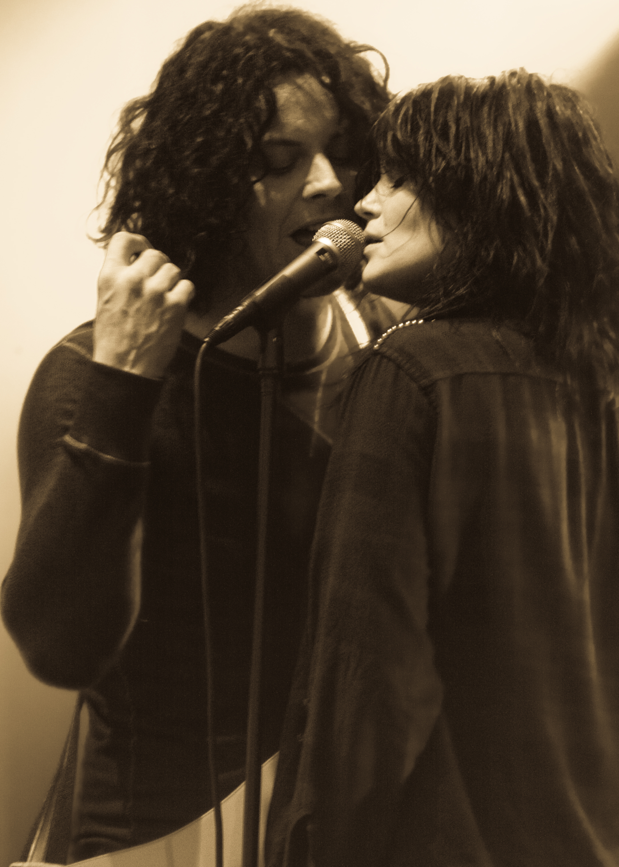 Jack White and Alison Mosshart of The Dead Weather at the 2009 Ottawa Bluesfest.